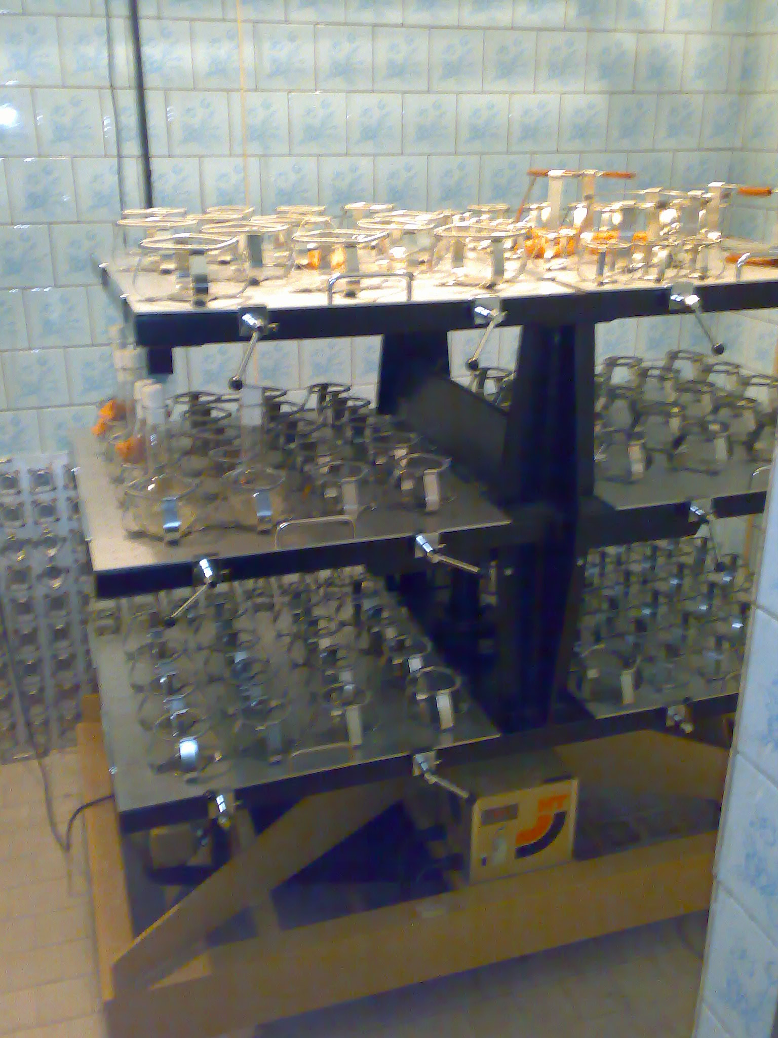 Large capacity orbital shaker